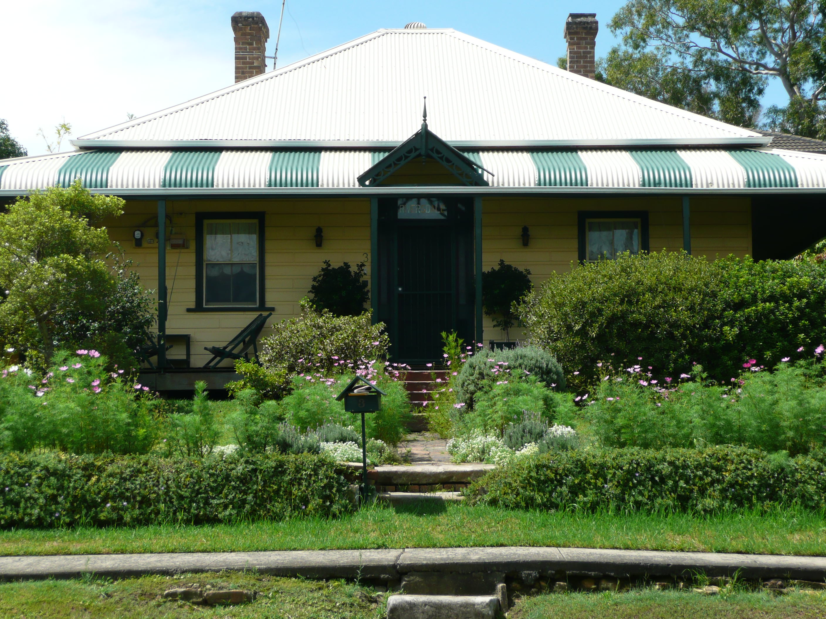 home, sydney